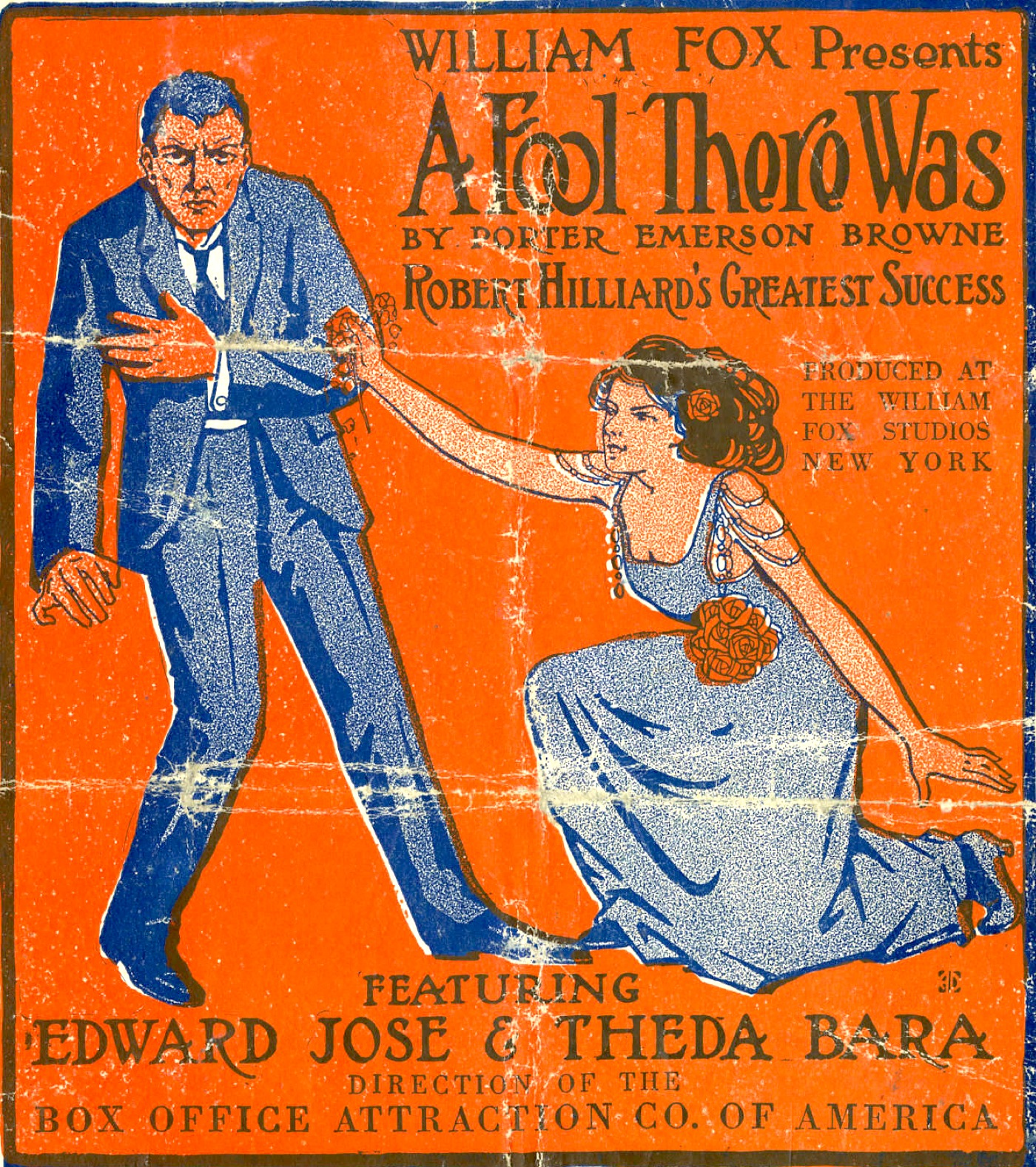 A Fool There Was is a 1915 silent film drama. This is a movie poster for the film. The "AD" monogram shows that this was the work of Arthur Dickson who worked for Fox Film Corporation from 1915 until 1934.